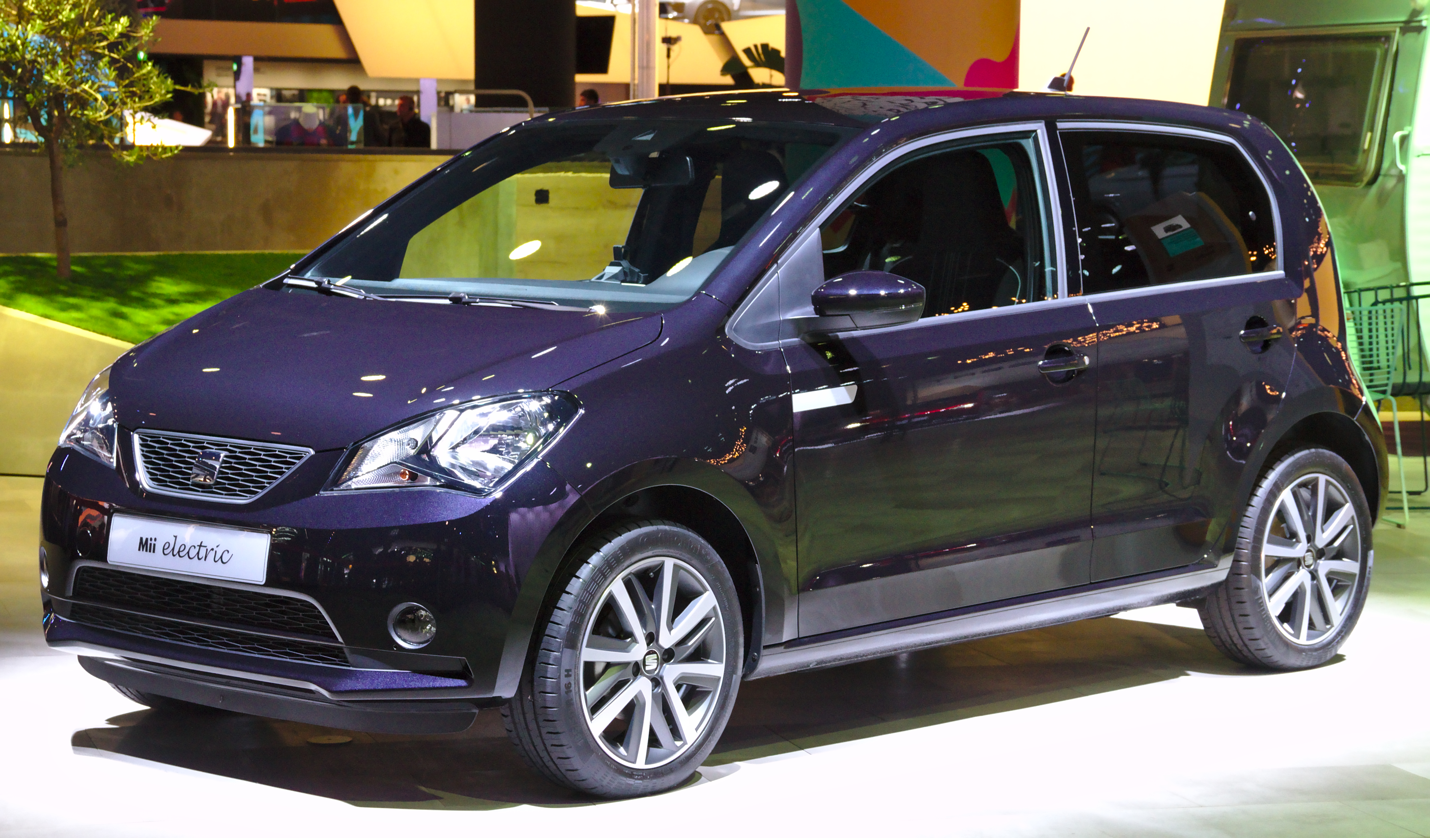 SEAT_Mii_Electric at IAA 2019